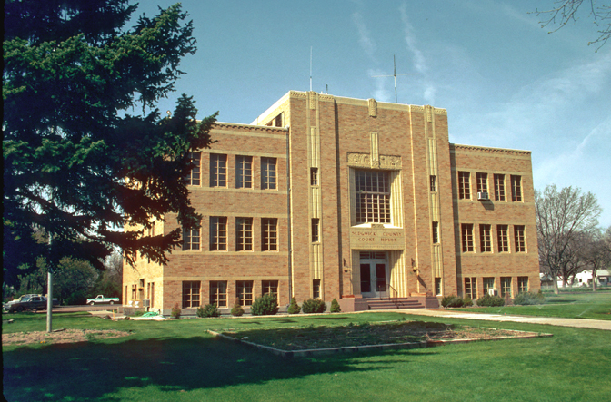 The Sedgwick County Courthouse, located at 315 Cedar Street in Julesburg, Colorado, United States. Built in 1938, it is listed on the National Register of Historic Places.